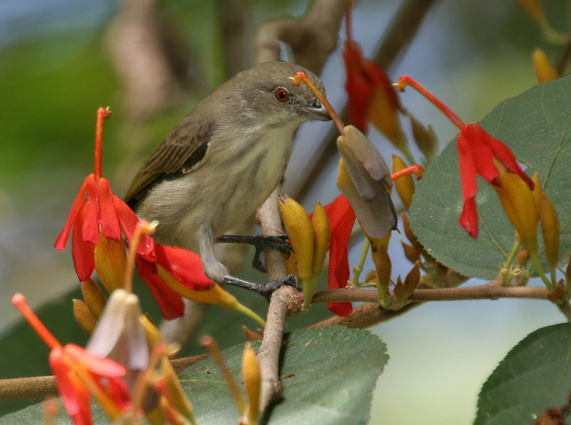 Thick-billed Flowerpecker Dicaeum agile (Pun: Full chuki, M.P. Che, Guj: Phul sunghani, Jadichanch fulsunghani, Mar: Phultocha, Ta: For flowerpeckers -Poon-chittu, Poon-kothi, Te: Chittu-jitta, Poopudupu jitta, Mal: Ittakkannikuruvi) on Helicteres isora - East Indian screw tree, nut-leaved screw tree • Bengali: antamora • Hindi: bhendu, damni, jonka phal, kapasi, मरोड़ फल maror phal • Kannada: yedamuri • Malayalam: isora-murri, valampiri • Marathi: अटी ati, धामणी dhamani, kapaisi, केवण kewan, मुरडशेंग muradsheng • Oriya: murmuria • Sanskrit: अवर्तनि avartani, मृग शृङ्ग mrigashringa • Sindhi: vurkatee • Tamil: வலம்புரி valampuri • Telugu: నులితడ nulitada • Urdu: marorphali - in Narsapur, Medak district, Andhra Pradesh, India.